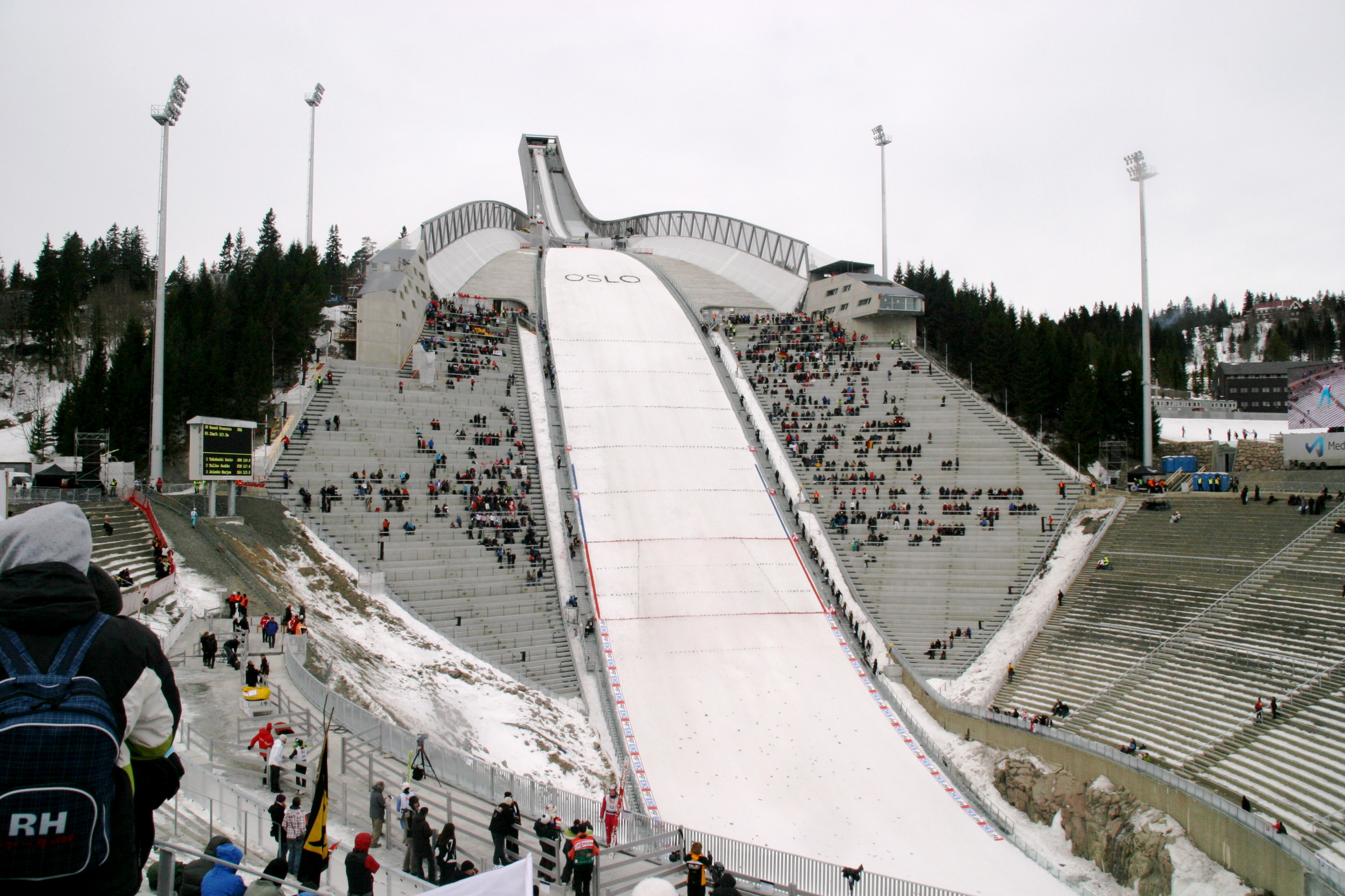 The new Ski Jump at Holmenkollen